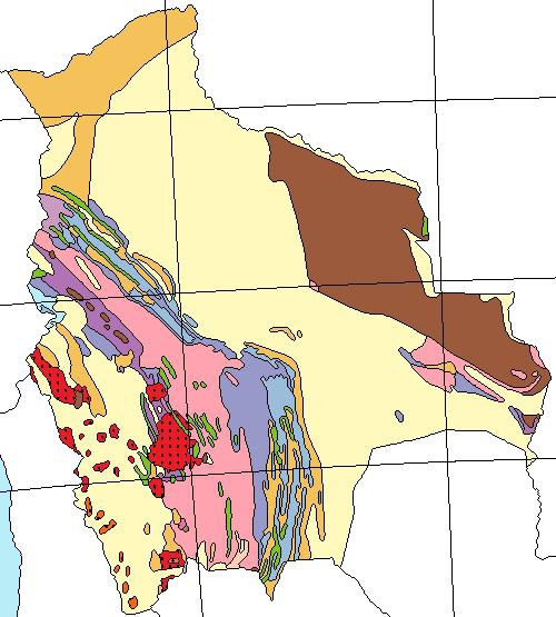 Bolivia geological map Quaternary deposits Quaternary volcanics Tertiary deposits Creataceous-Tertiary volcanics Cretaceous age rocks Devonian age rocks Silurian age rocks Ordovician-Silurian age rocks Precambrian undifferentiated